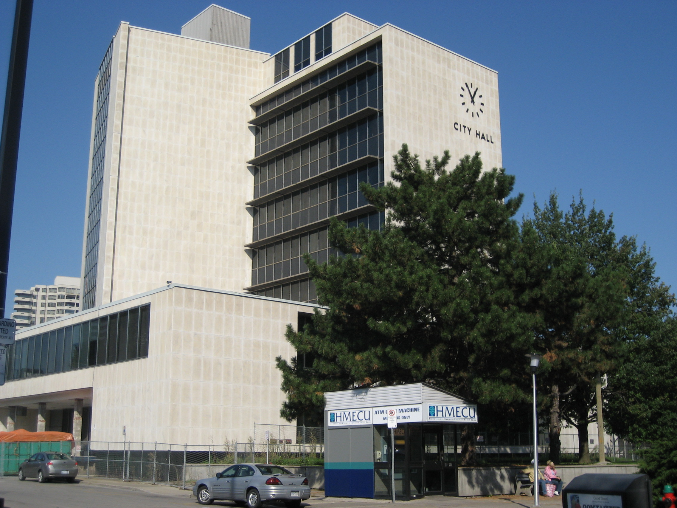 Hamilton City Hall, Hamilton, Canada.